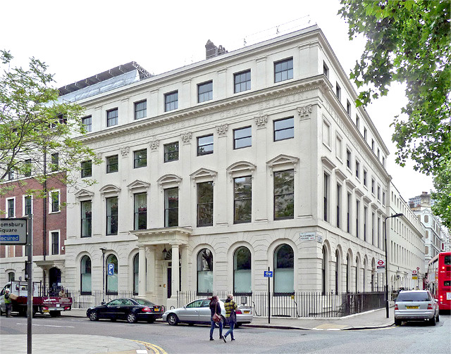 A very noble house, originally built in the C17th, but overhauled by John Nash in 1777 (it must have been one of his first commissions). The facade is divided by Corinthian pilasters and the first-floor windows have alternating pediments. The porch and top storey were added c1860 by the Pharmaceutical Society of Great Britain, whose name still can be seen in the frieze. Grade II listed.